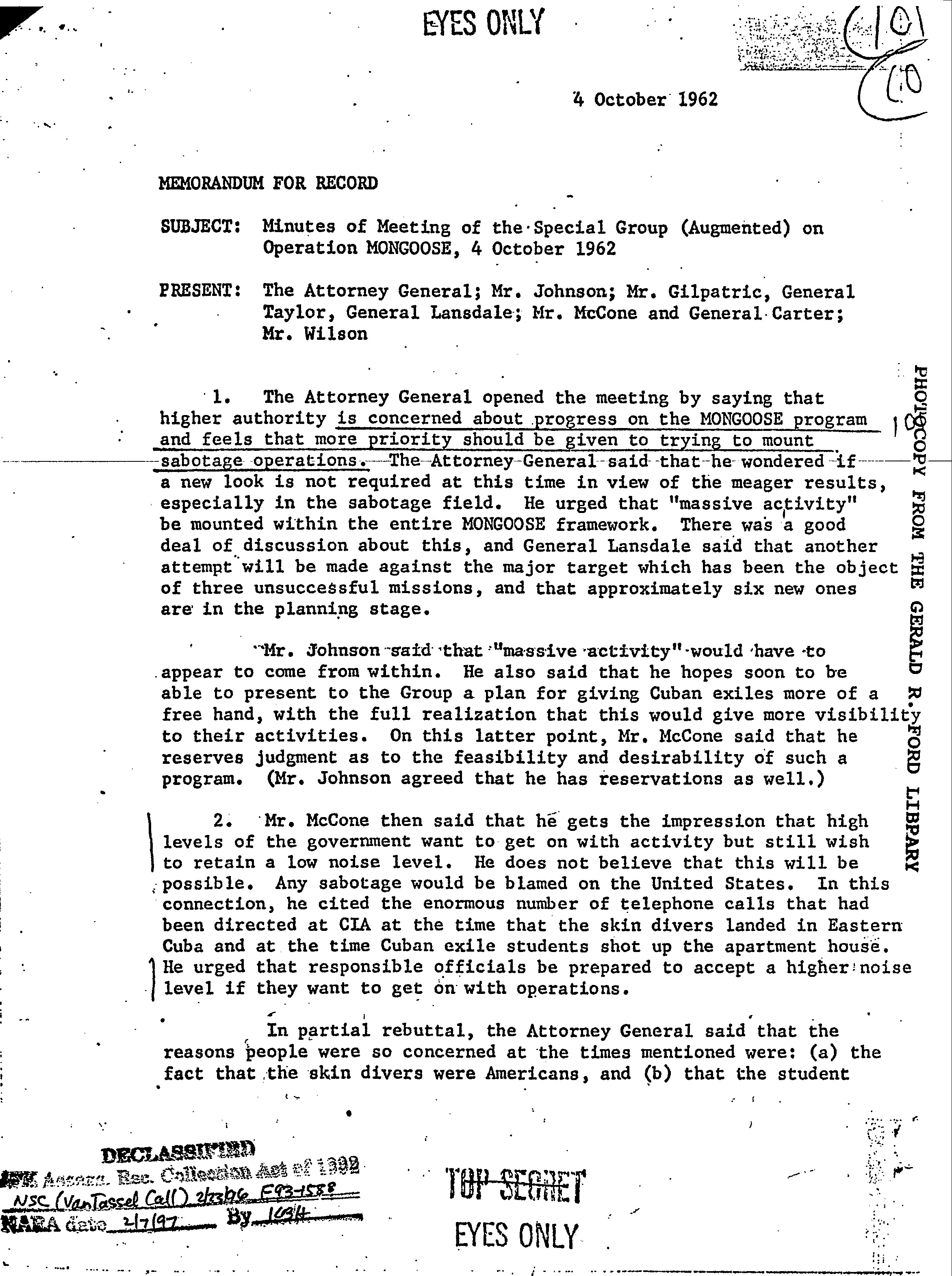 [1] Minutes of Meeting of the Special Group on Operation Mongoose, 4 October 1962, page 1.